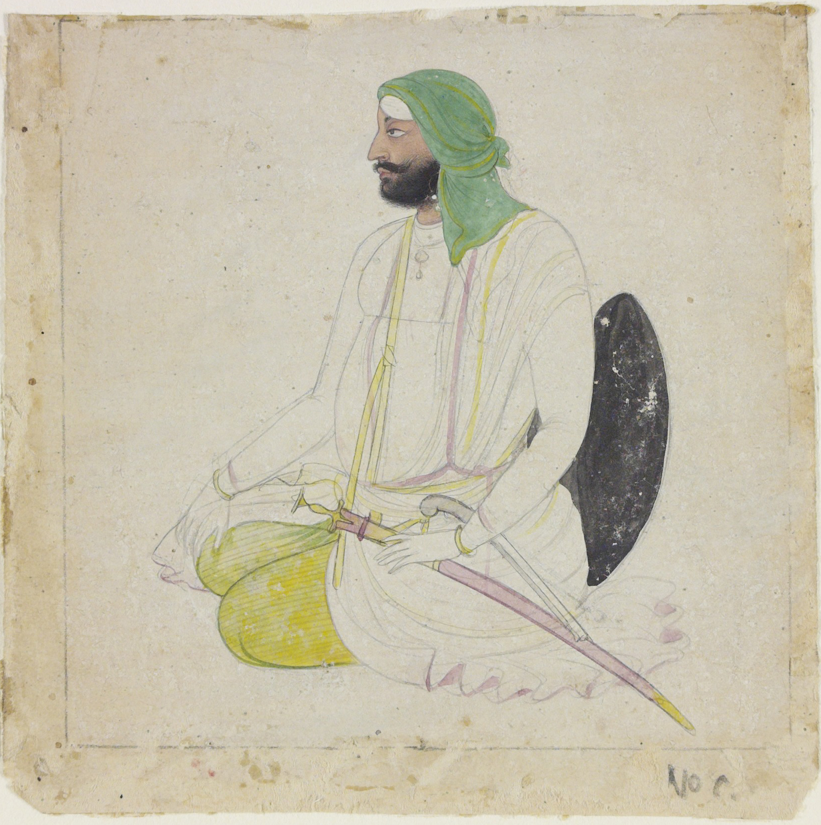 This drawing done in ink on paper is lightly painted in body colour and dates to c. 1835-45. It depicts a Sikh sardar, a title originally meaning "chieftain", or "headman" in Persian, but which came to be used routinely for Sikh men of a certain rank. The portrait was probably done in Lahore or Amritsar, the major cities of the Sikh kingdom established by Maharaja Ranjit Singh in 1801 and which survived until the Panjab was annexed to the British empire in 1849. The Panjab (literally "Five Rivers") was later divided into two following the Partition of the Indian subcontinent in 1947, and is still partly in Pakistan and partly in India. The Sikh court attracted artists from the independent kingdoms of the Panjab Hills who worked for new patrons, who might be Sikh, Hindu or Muslim, or even Europeans in the service of the Maharaja.